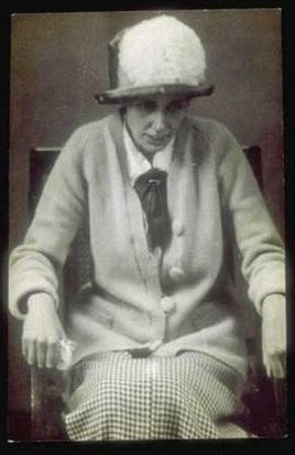 Photograph of Olive Wharry